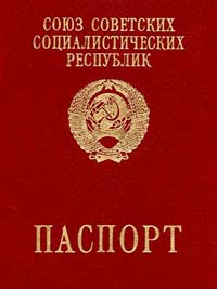 Soviet Passport for travel abroad Cover.